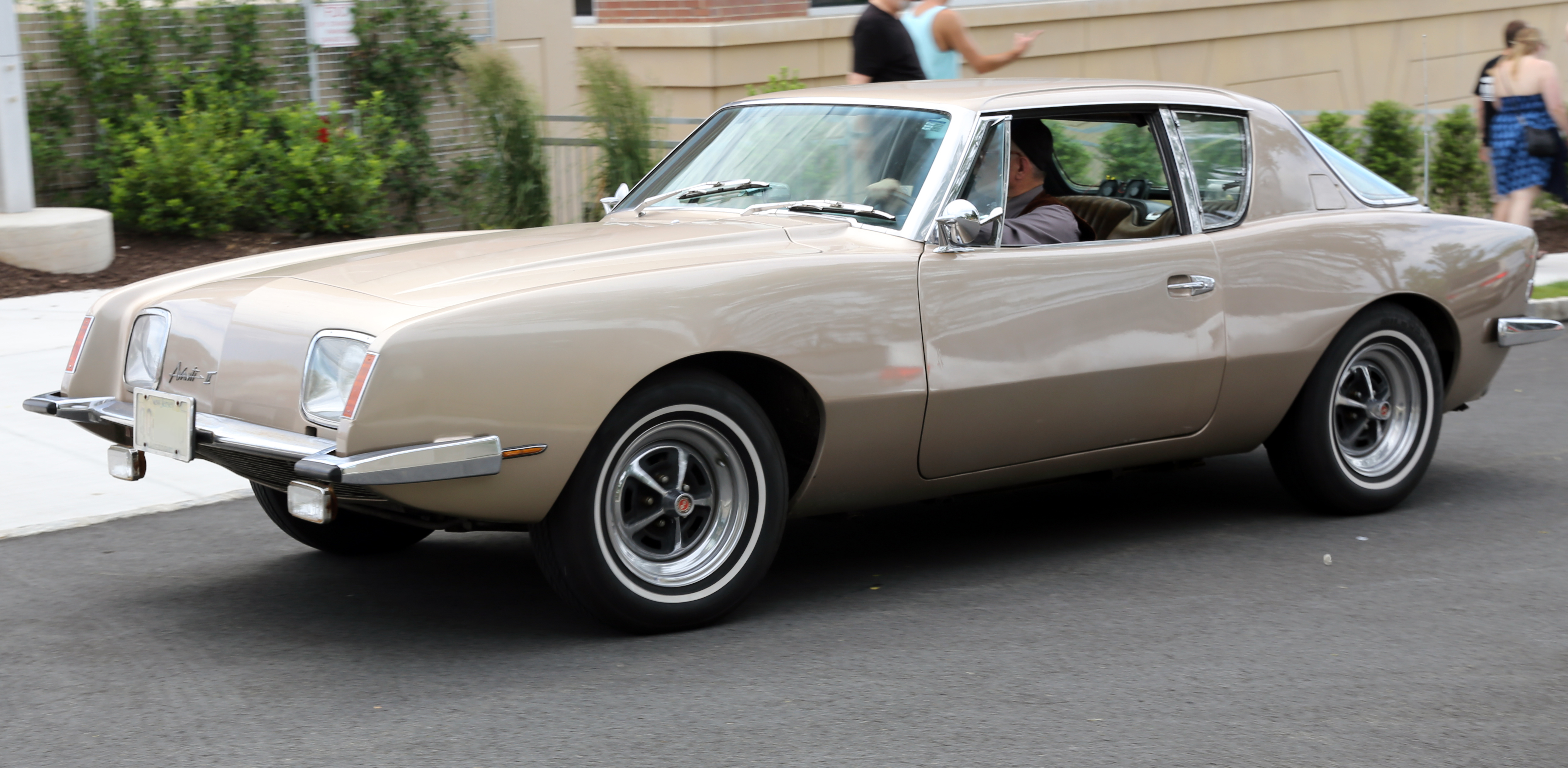 1967 Studebaker Avanti II. 327ci V8 and automatic gearbox, chassis number RQ-A0206